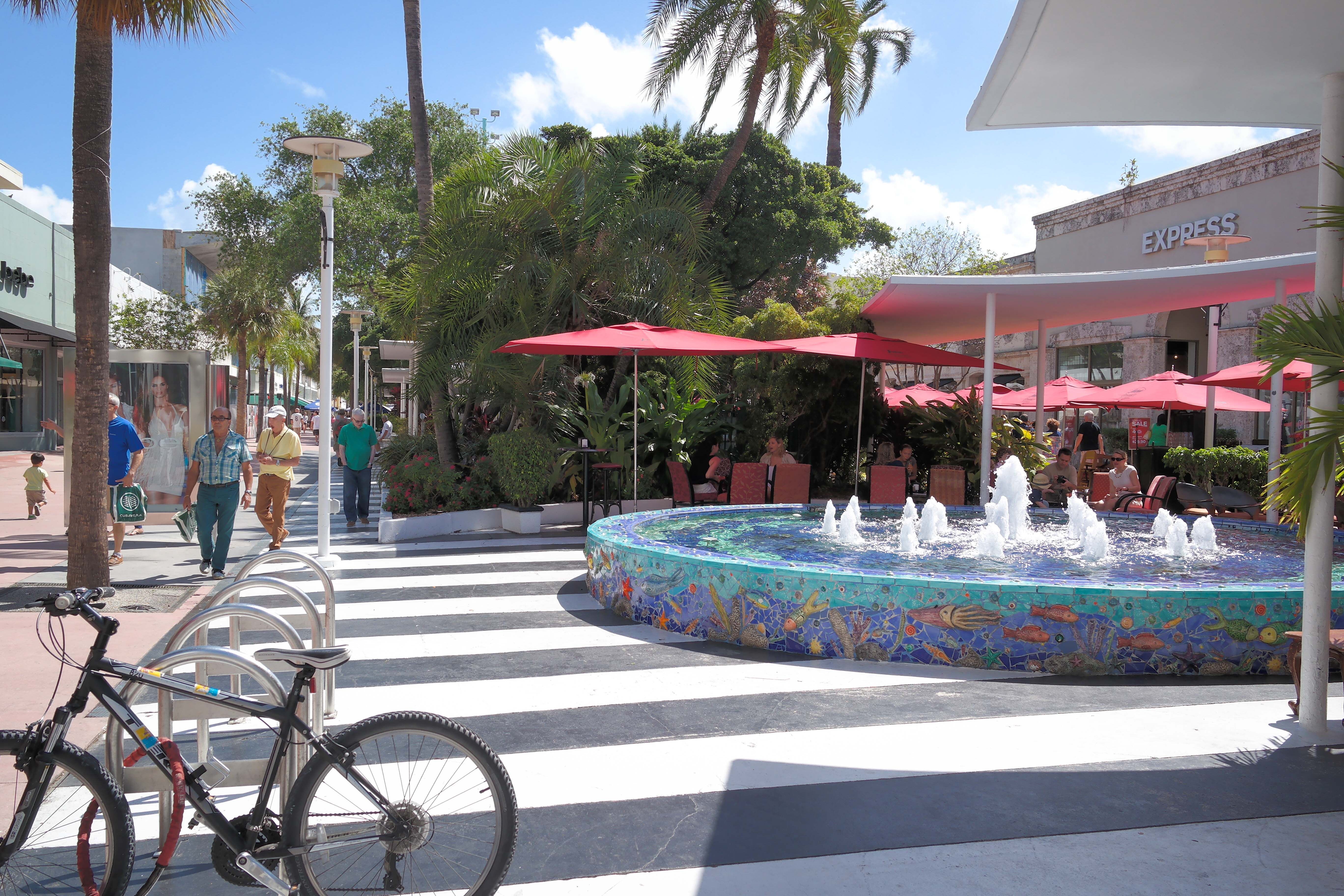 A view of Lincoln Road Mall in Miami Beach, Florida